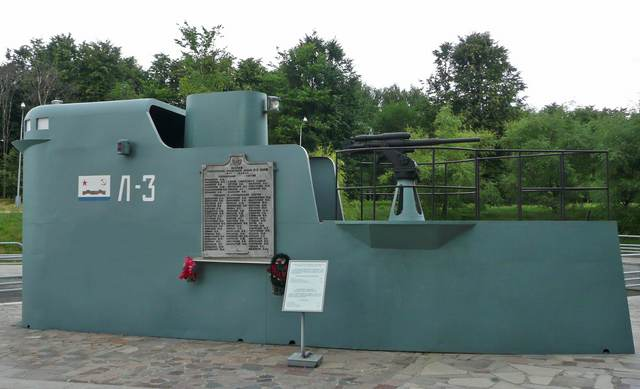 Russian submarine L-3 conning tower as monument in Park Pobedy ("Victory Park") at Poklonnaya Gora museum, Moscow.